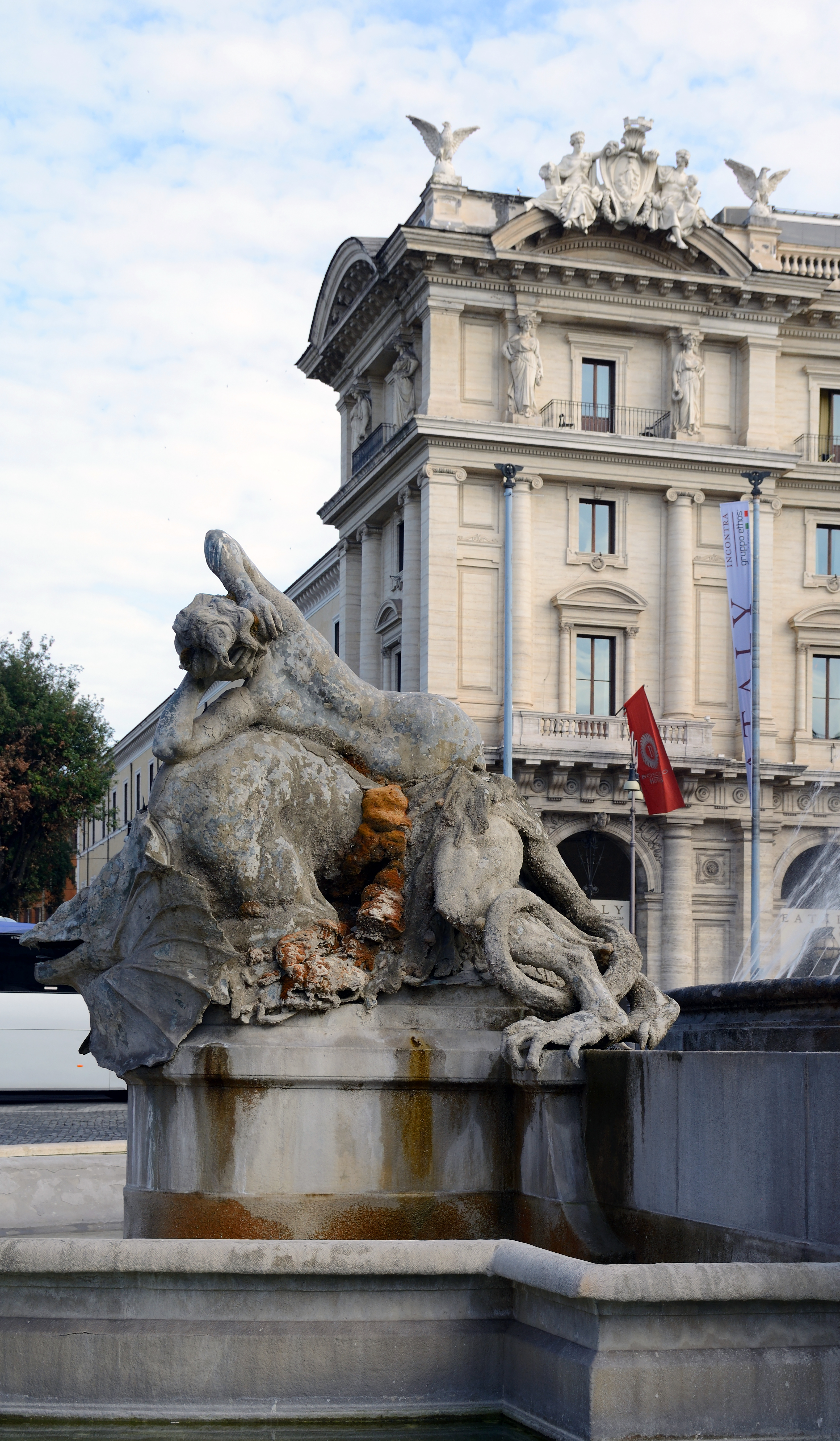 Nymph of Rivers in Fontana delle Naiadi (Rome)